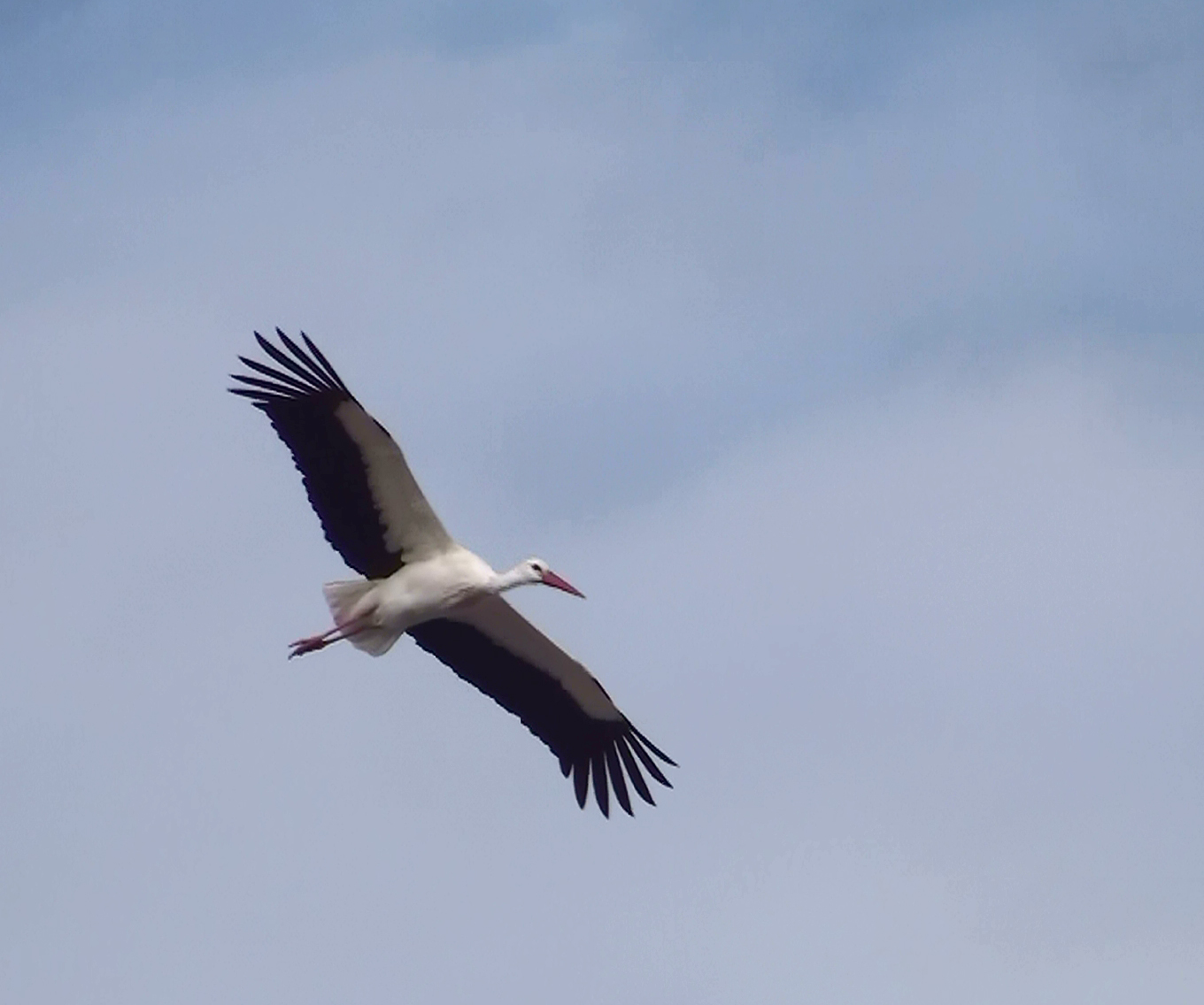 White Stork Ciconia ciconia in flight near Lleida, northeast Spain.